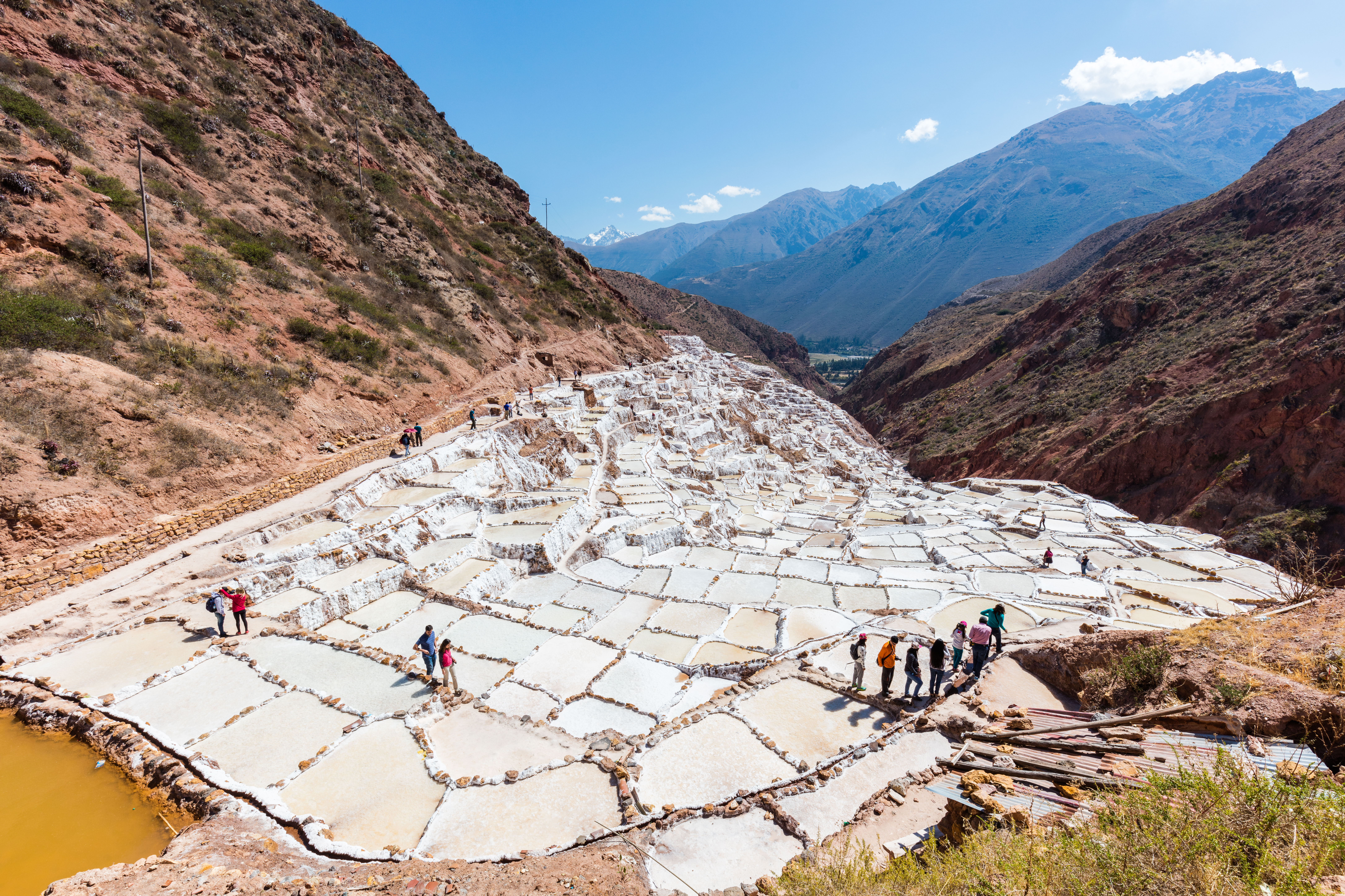 Salineras (salt evaporation ponds) in Maras, Peru